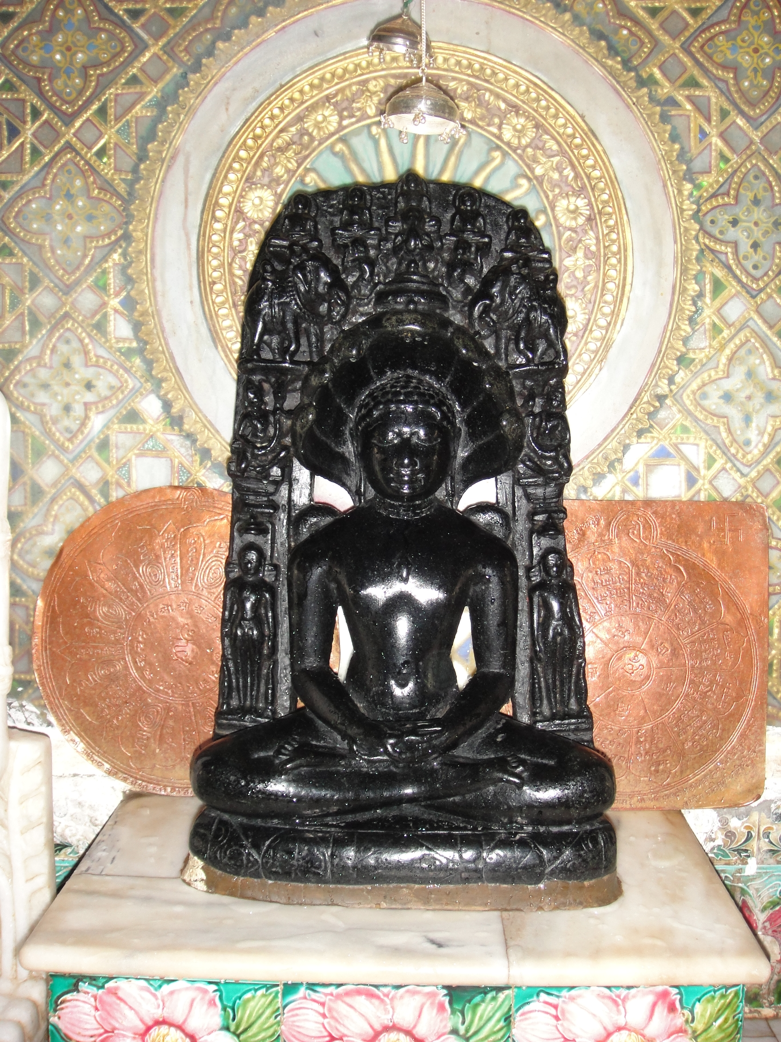 Parshwanath Pratima in Temple